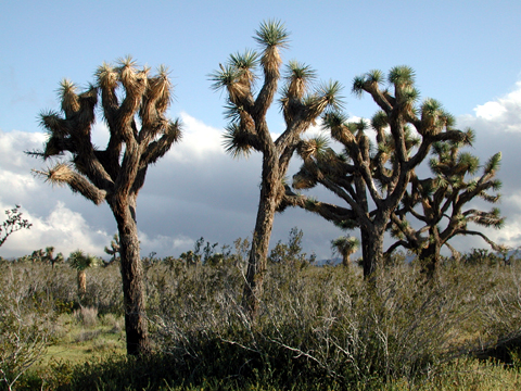 Joshua trees in the Mojave Desert